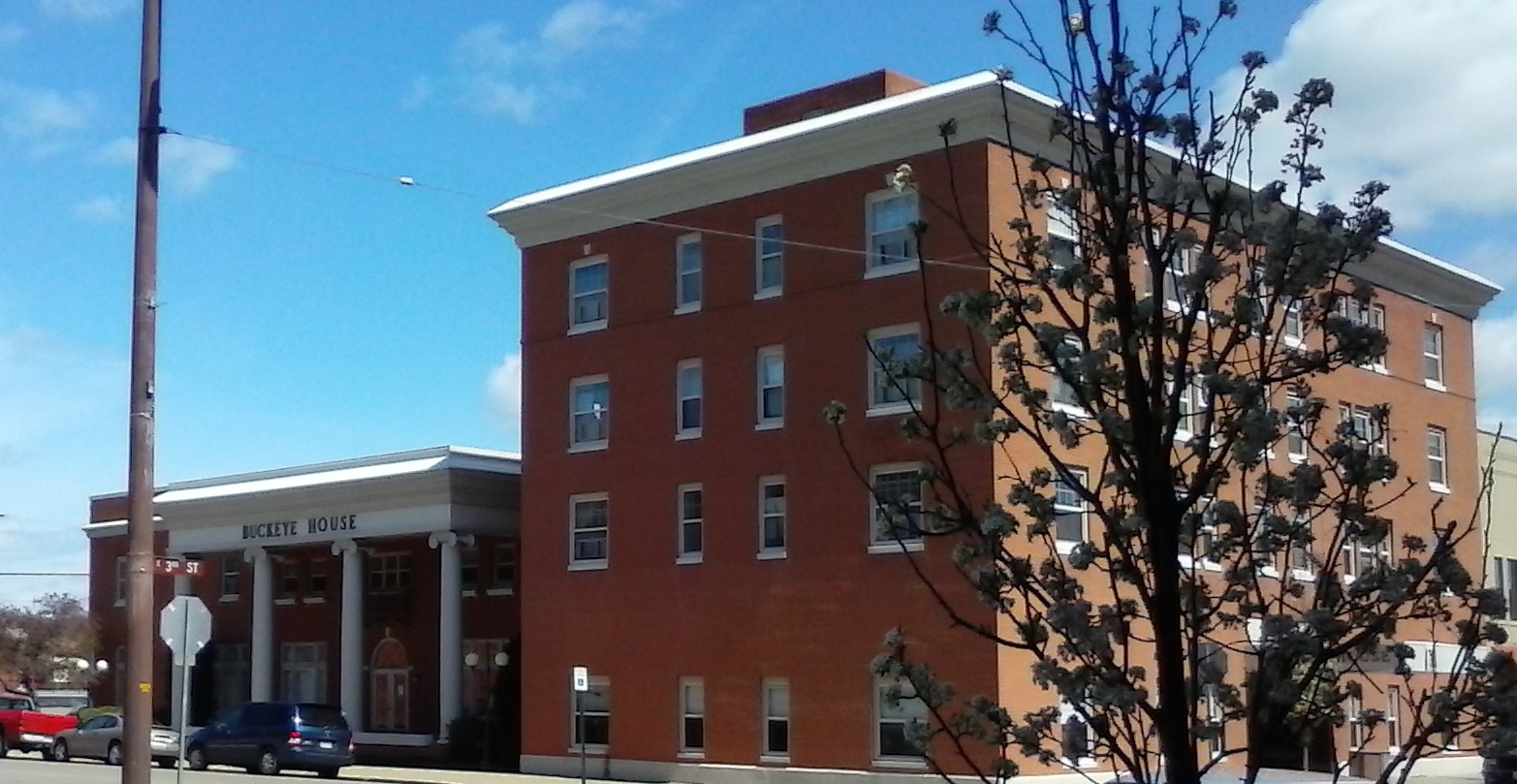 Apartment building, downtown Uhrichsville, Ohio